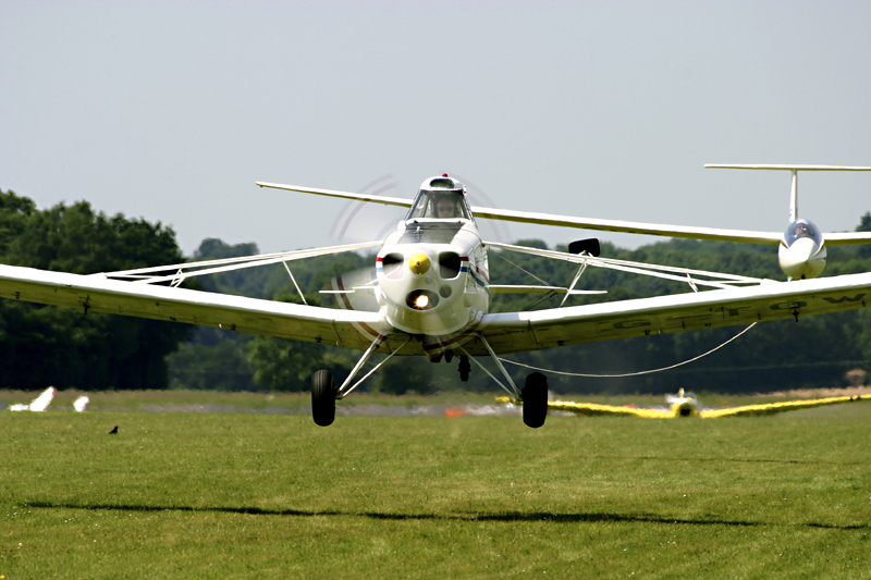 A Piper Pawnee just leaving an airfield with a glider on tow. When the glider reaches the desired height, its pilot releases that end of the rope. The launch will be typically to 700metres (2000feet) over flat land.